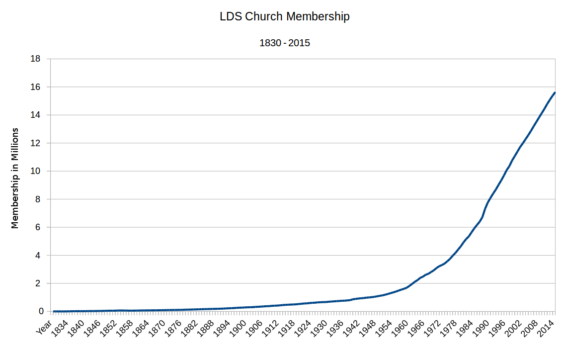 Chart of LDS Church membership from 1830-2015